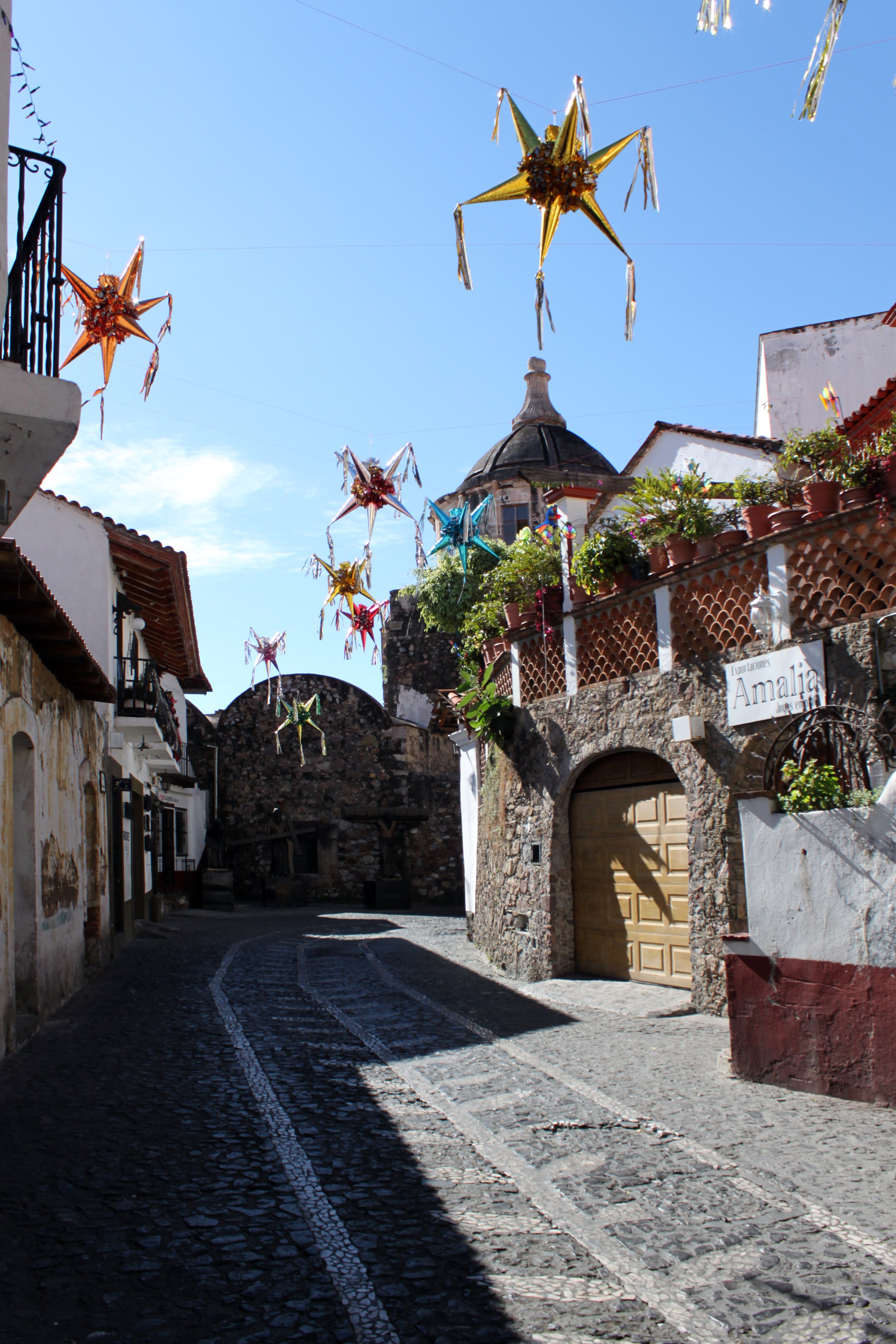 Street scene in Taxco, Guerrero State, Mexico